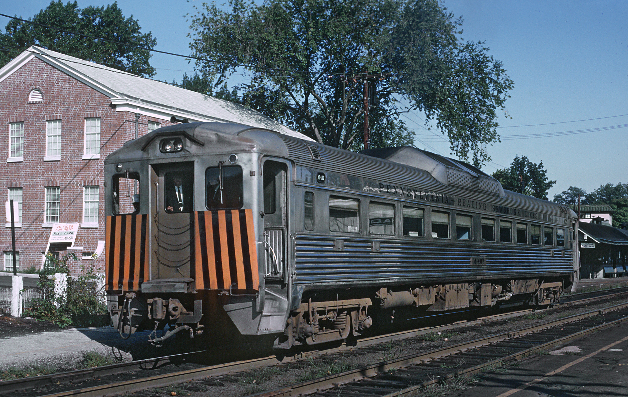 Pennsylvania-Reading Seashore Lines RDC M407 passing Haddonfield, NJ Station on September 2, 1965